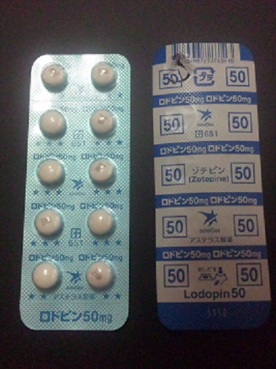 Zotepine 50 mg tablets